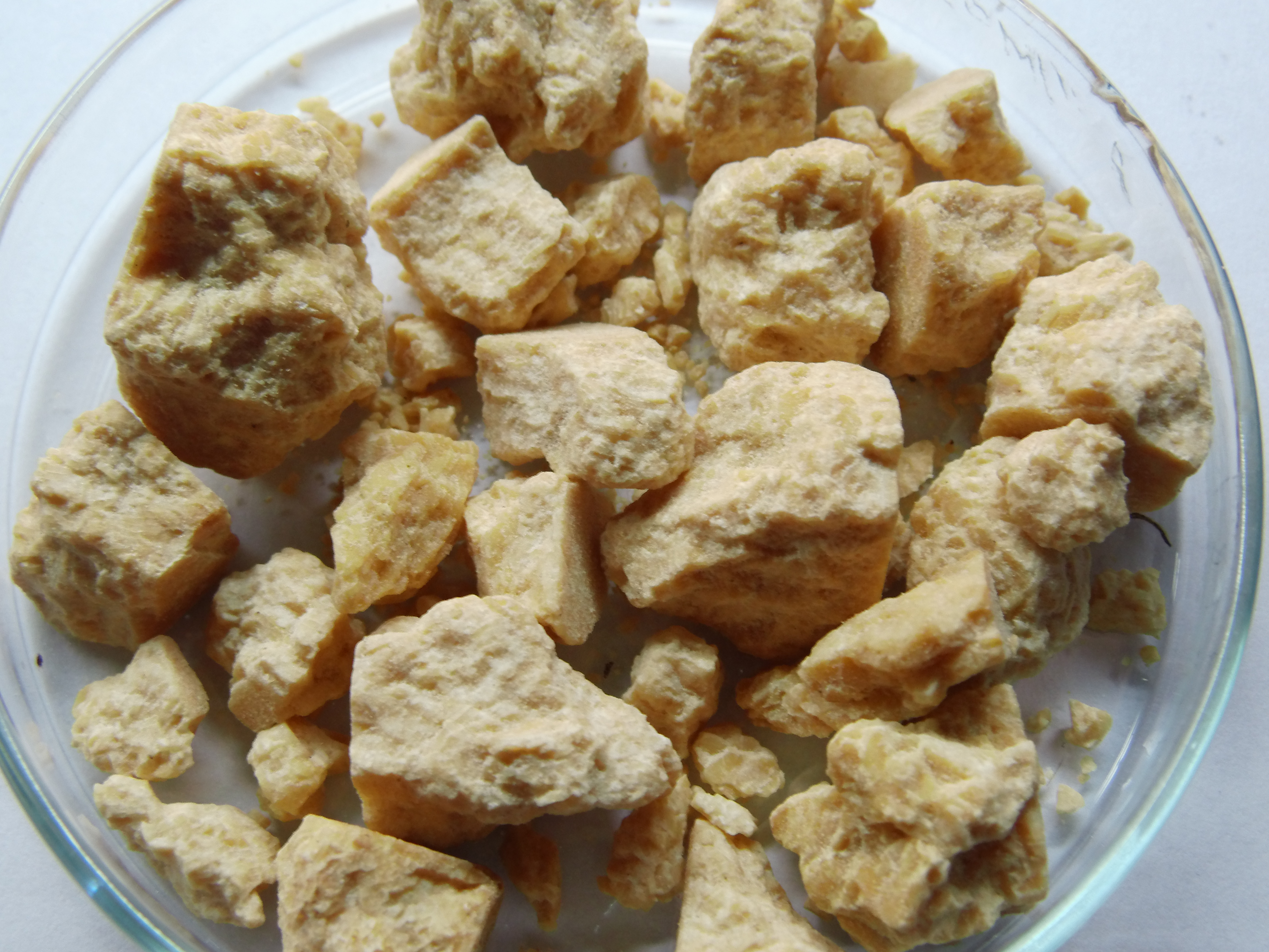 Trinitrotoluene